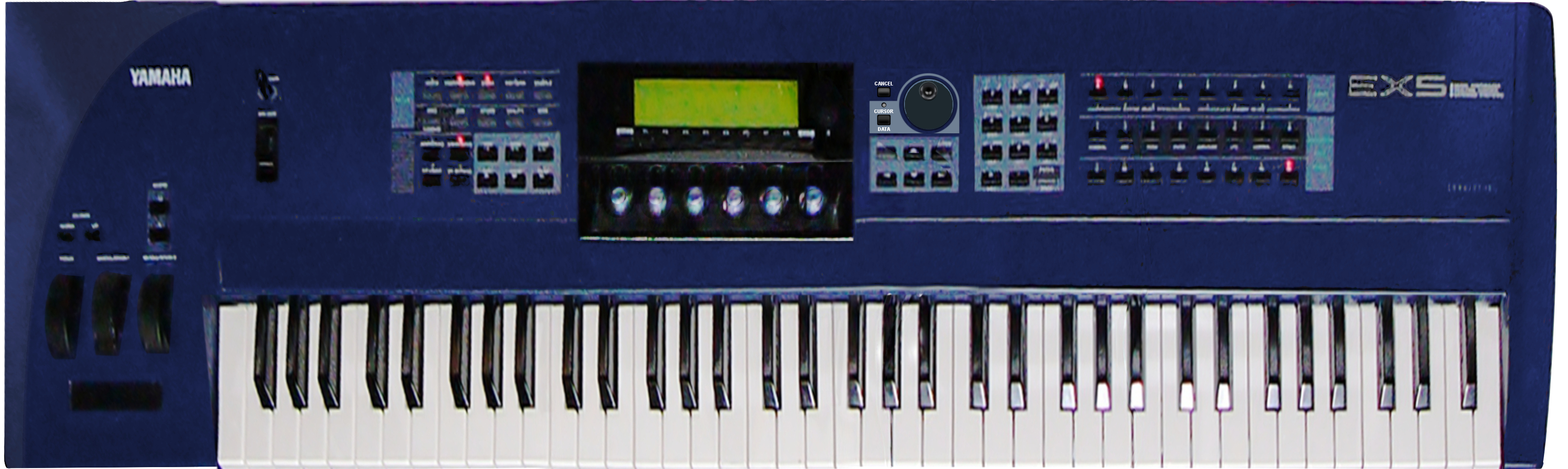 Yamaha EX5 features four synthesis: AWM2 (Advanced Wave Memory) Synthesis plus a full-featured sampling system. AN (Analog Physical Modeling) Synthesis FDSP (Formulated Digital Sound Processing) Synthesis VL (Virtual Acoustic)